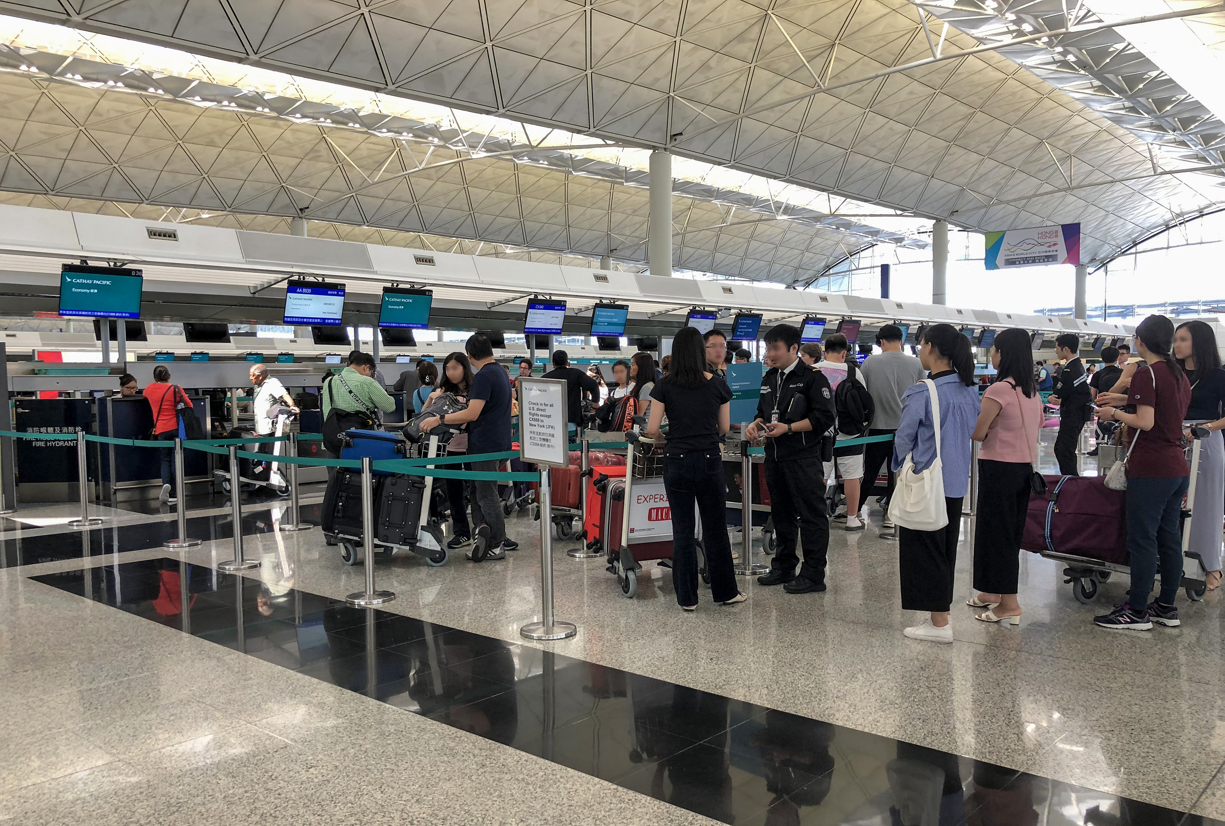 This area is for all US direct flights except CX888 (which makes a stopover at Vancouver where passengers bound for New York have to deplane to receive another inspection). AVSECO staff on guard.